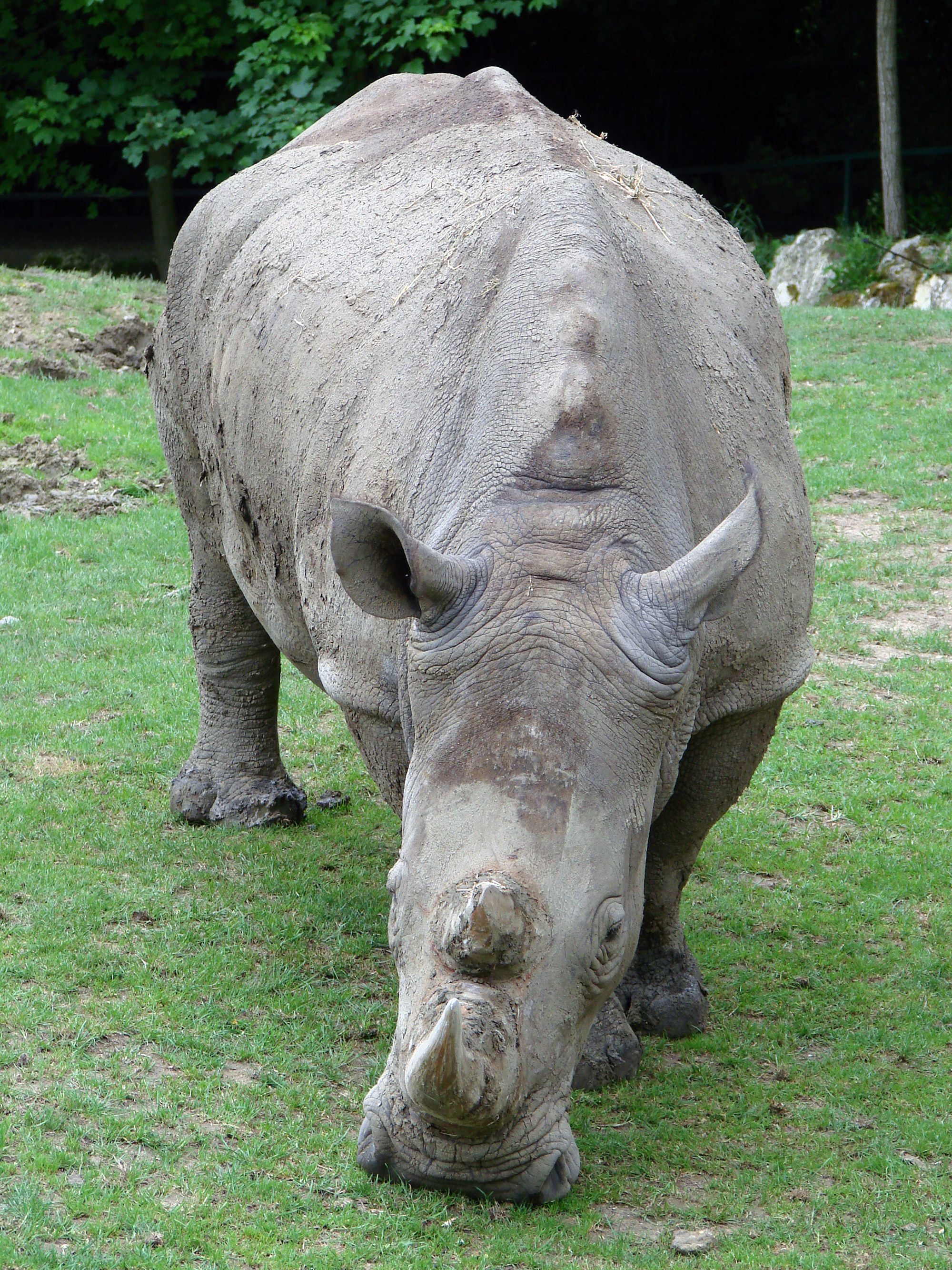 Southern white rhinoceros (Ceratotherium simum simum). ZooParc de Beauval,Loir-et-Cher,France.